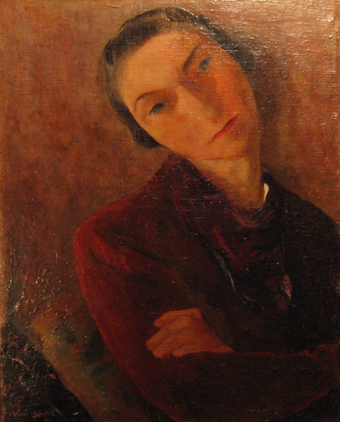 Portrait of Claire Bertrand